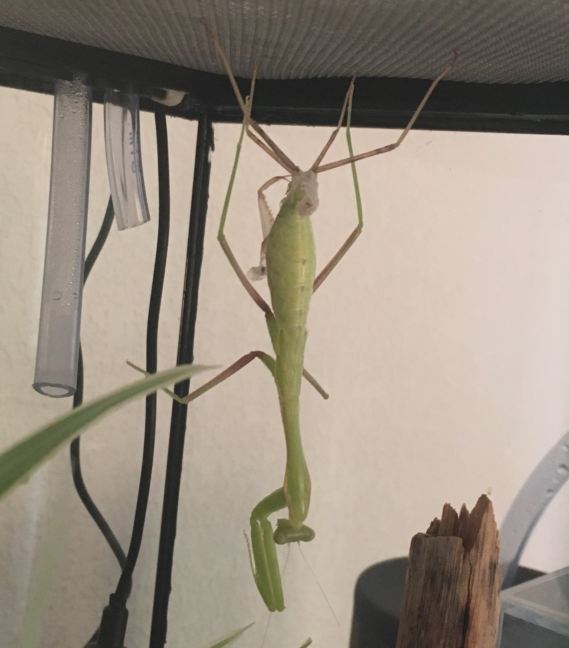 The sixth molt of a Sphodromantis Lineola